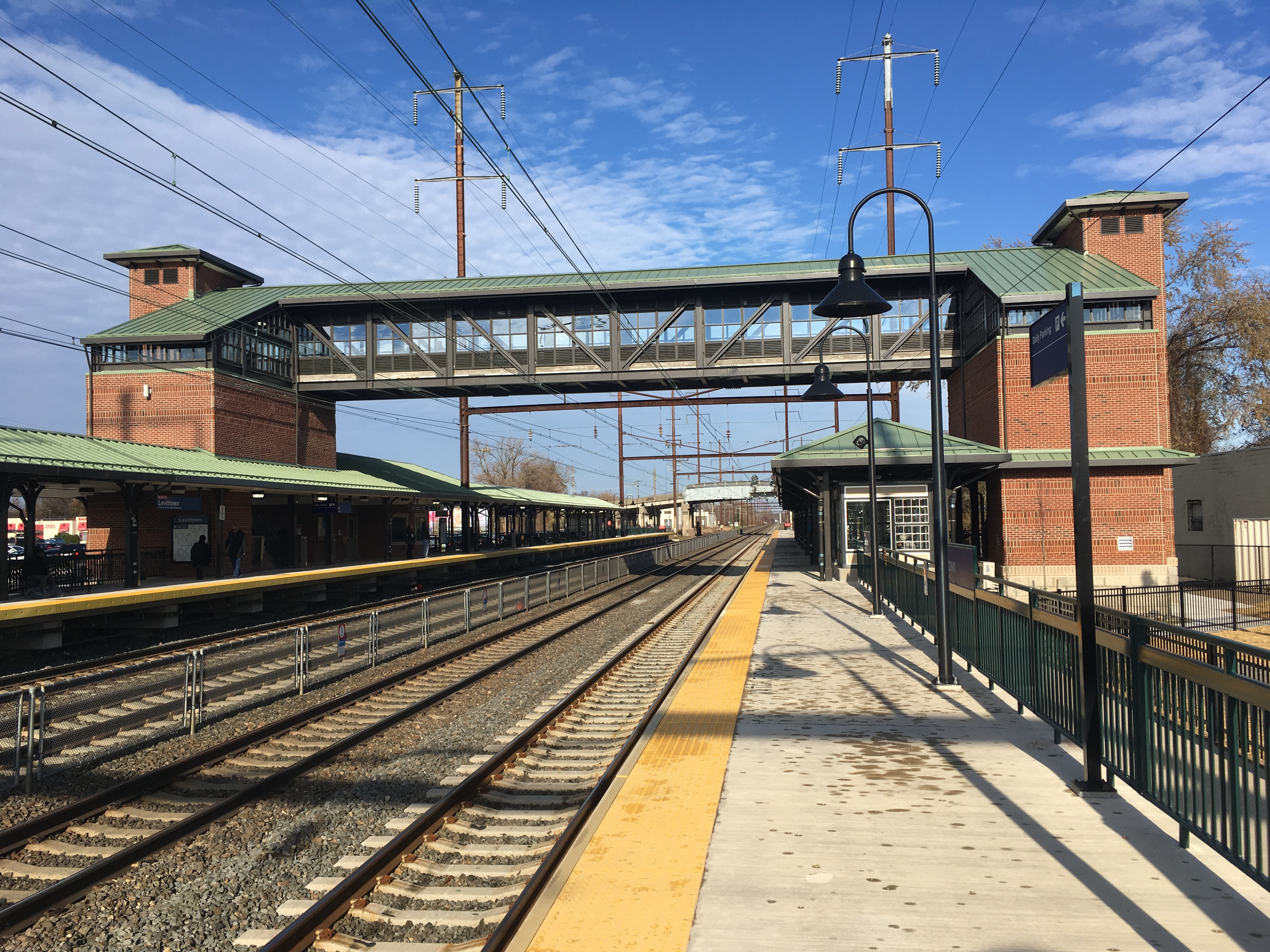 The Levittown station along SEPTA’s Trenton Line in Tullytown, Pennsylvania